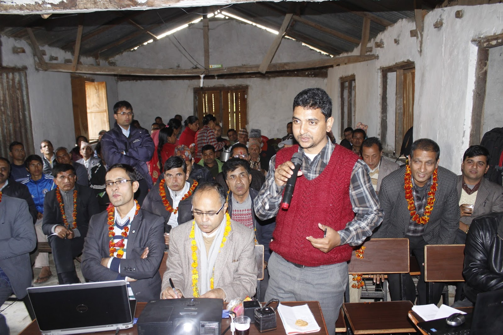 Inter-action Programme at Rainas Municipality. नेपाली: राईनास नगरपालिका भएको अन्तर्क्रियात्मक कार्यक्रम